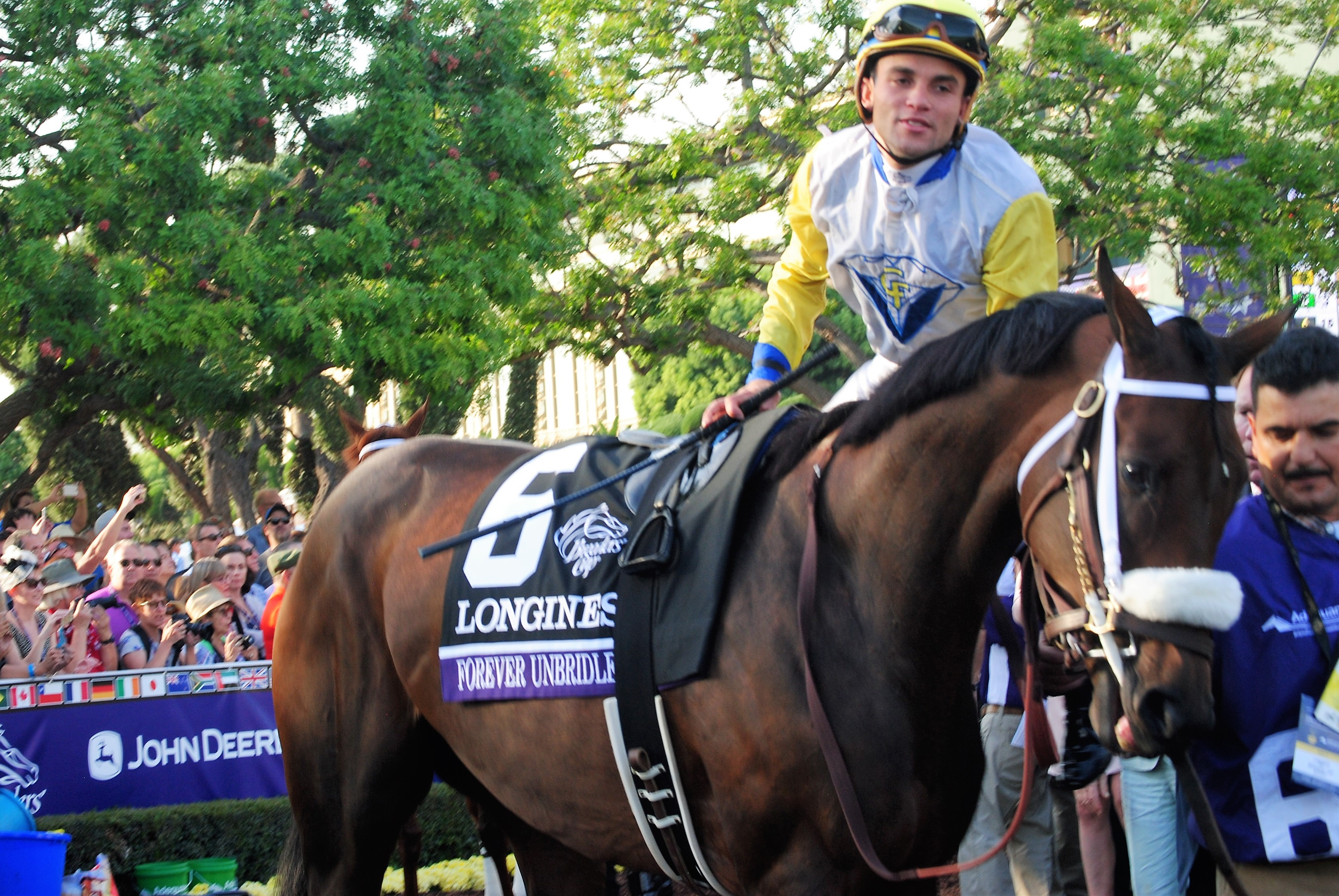 Forever Unbridled and jockey Joel Rosario before the 2016 Breeders' Cup Distaff.